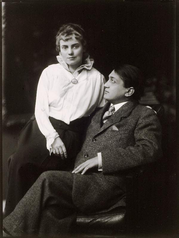 Endre Ady and Berta Boncza (Csinszka). Photograph by Aladár Székely Petőfi Literary Museum, Budapest LocationBudapestCoordinates47° 29′ 29.73″ N, 19° 03′ 29.65″ E Established1957Web page control : Q1234343 VIAF: 152132060 ISNI: 0000 0001 2186 691X GND: 13840-X SUDOC: 02903941X BNF: 12074898m institution QS:P195,Q1234343